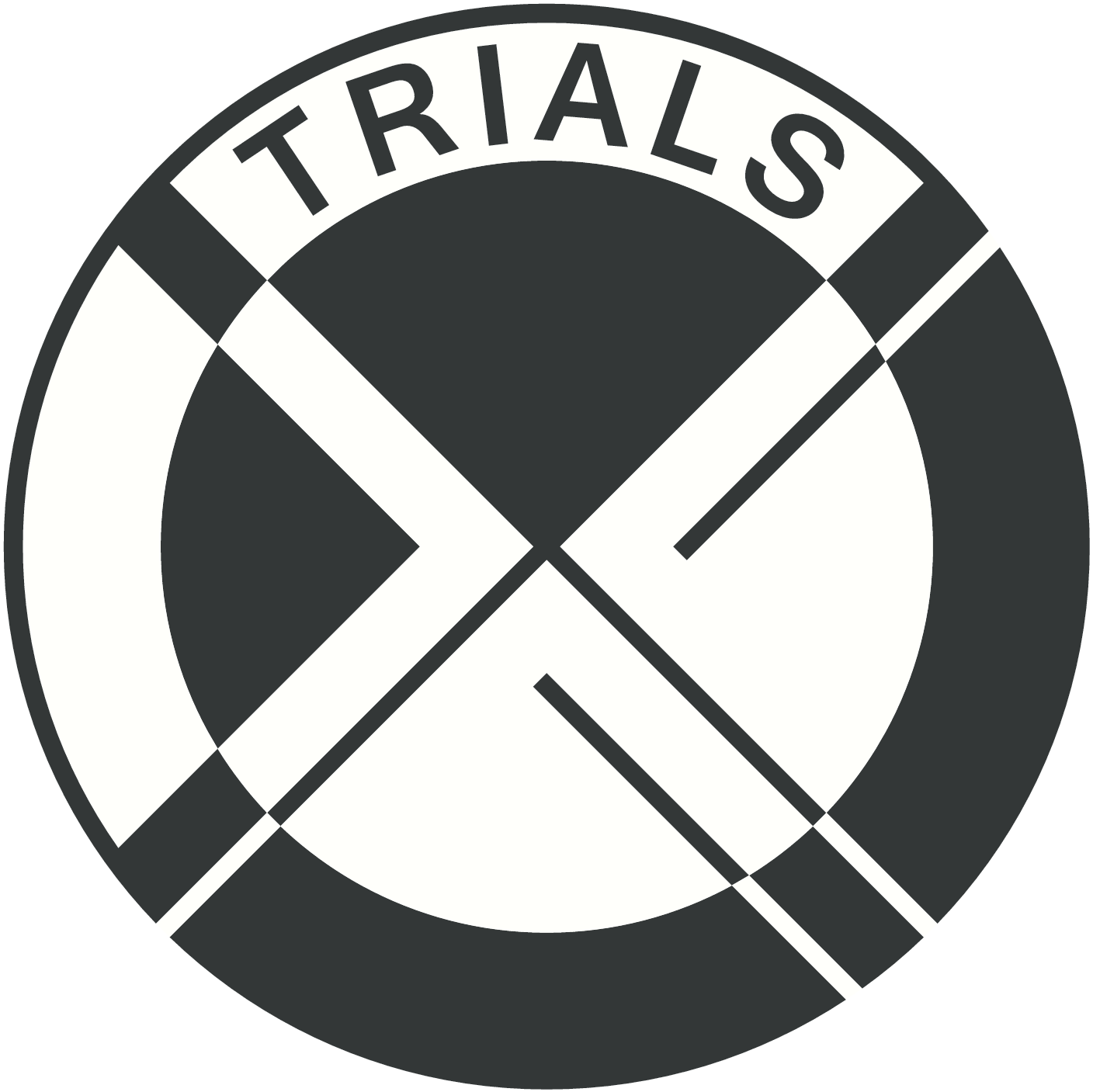 The logo shows the letter X inscribed in a circle, which is visible thanks to the created graphic abstraction and thanks to optical illusion.